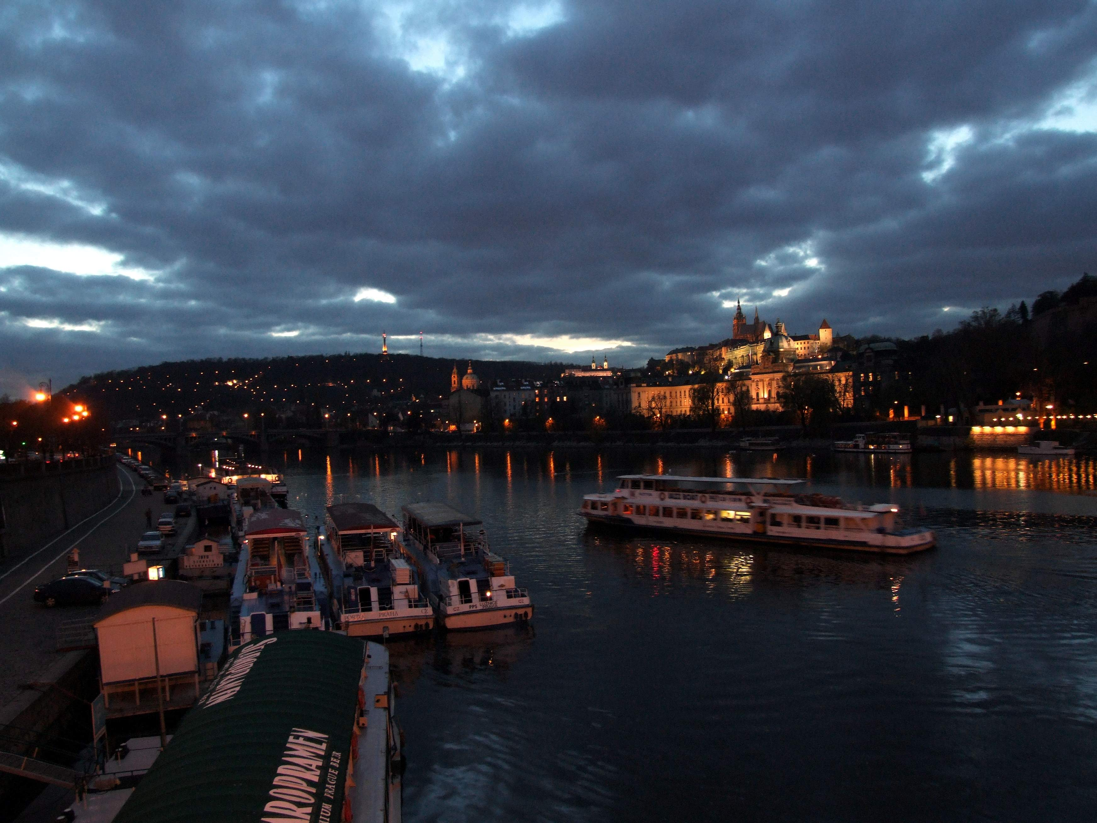 Boats on the Vltava River in Prague. In the distance - The Prague's Castle Author: Mohylek 17:21, 17 November 2006 (UTC)